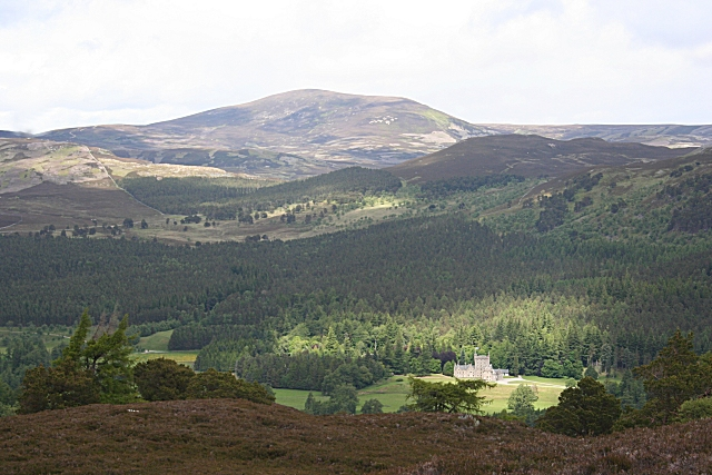 Invercauld House and Culardoch from Carn nan Sgliat Invercauld House, caught in a patch of sunlight, is the seat of the Farquharsons of Invercauld.